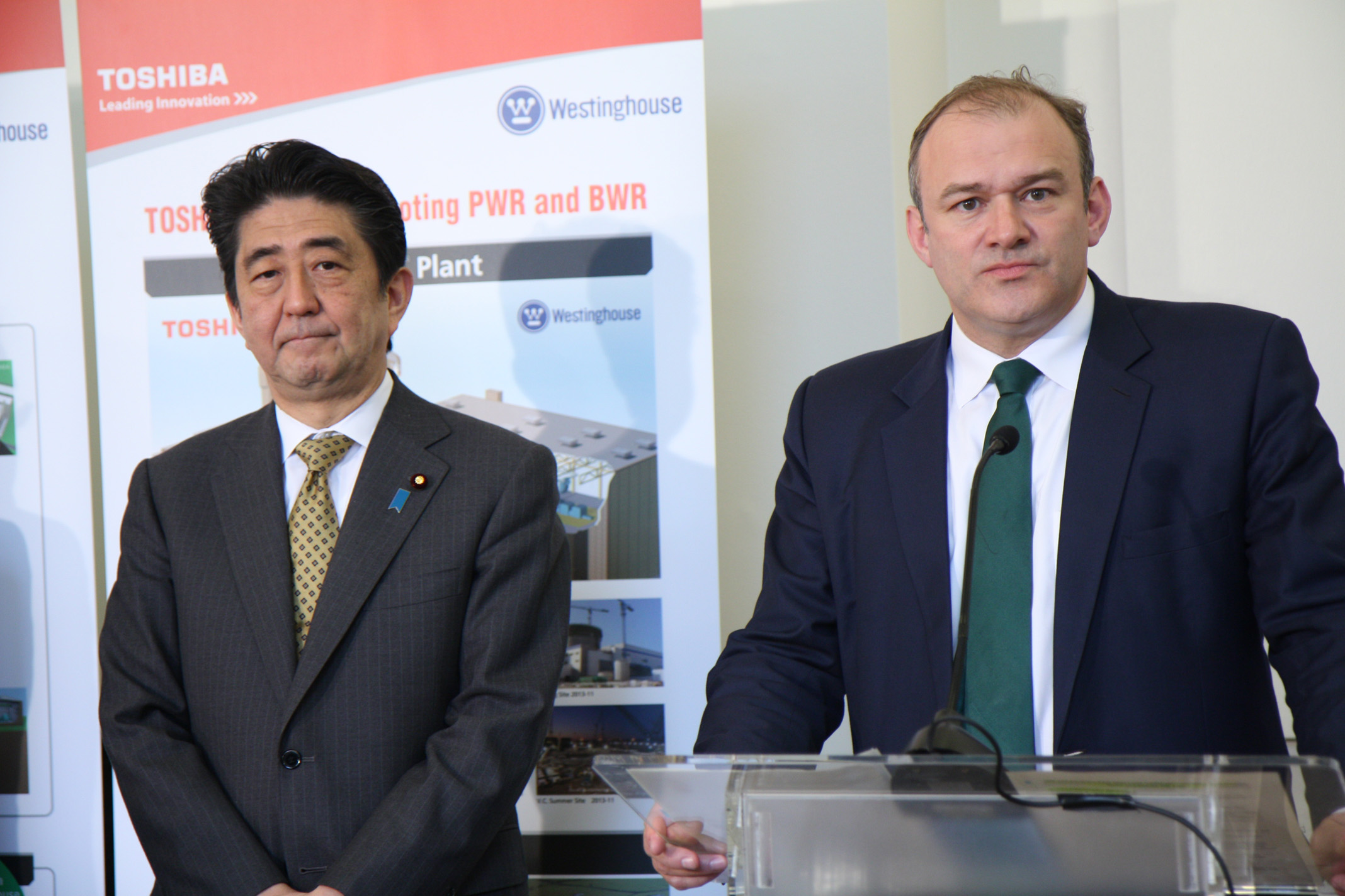 Prime Minister of Japan Shinzo Abe and Ed Davey, Secretary of State for Energy & Climate Change at University College London, 1 May 2014.